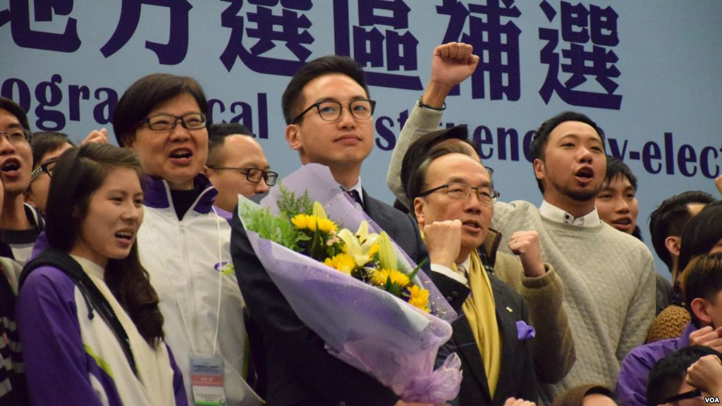 Civic Party chair Audrey Eu, leader Alan Leong and members congratulates Alvin Yeung's victory. 中文（香港）: 公民黨主席余若薇(左二)、黨魁梁家傑(右二)等多位成員祝賀楊岳橋當選。（美國之音湯惠芸攝）